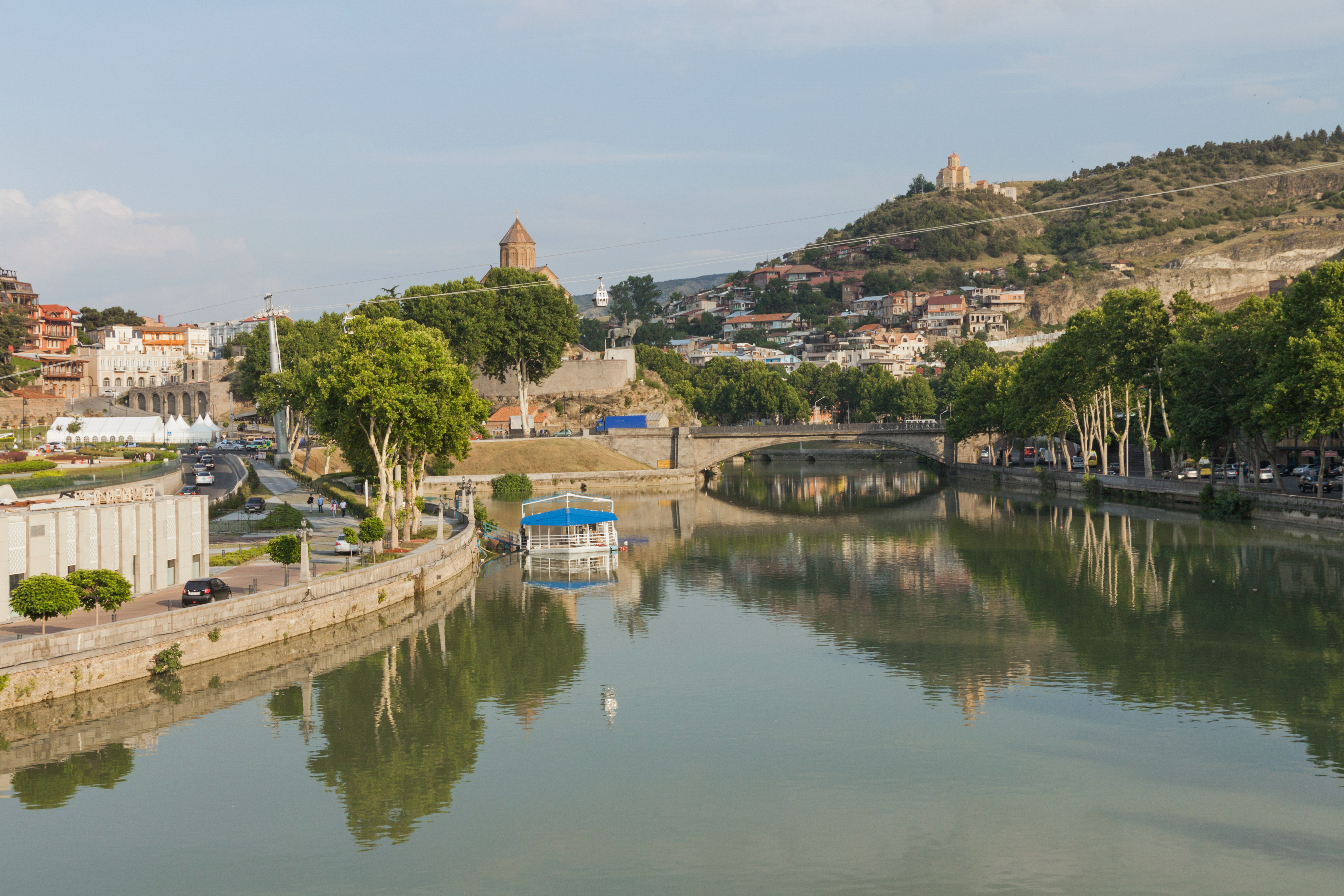 Views from the Bridge of Peace on the Kura River and its surroundings. Tbilisi, Georgia.